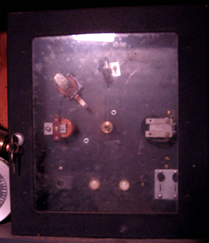 Photo taken in George C. Devol's basement by grandson, William Wardlow in June, 2006